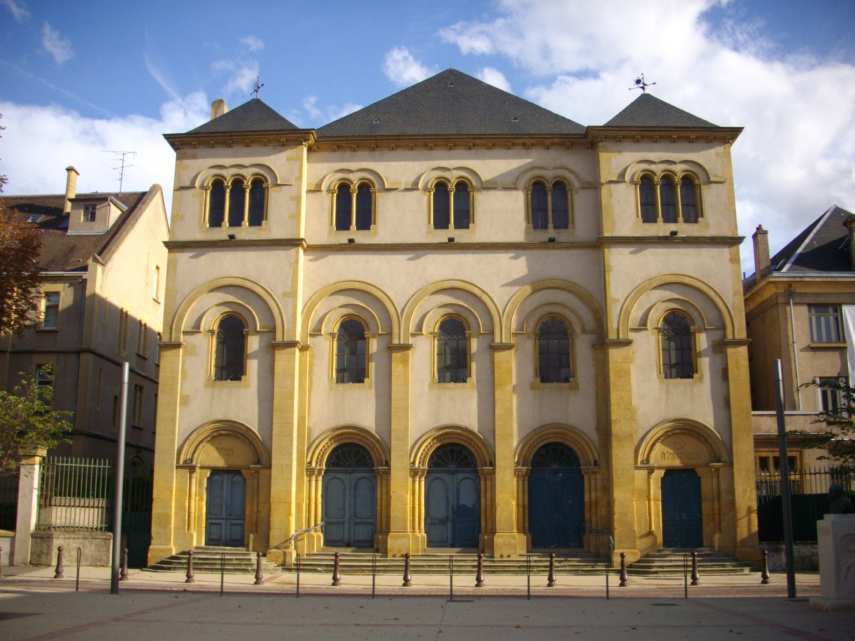 The synagogue of Metz (Moselle, France) .